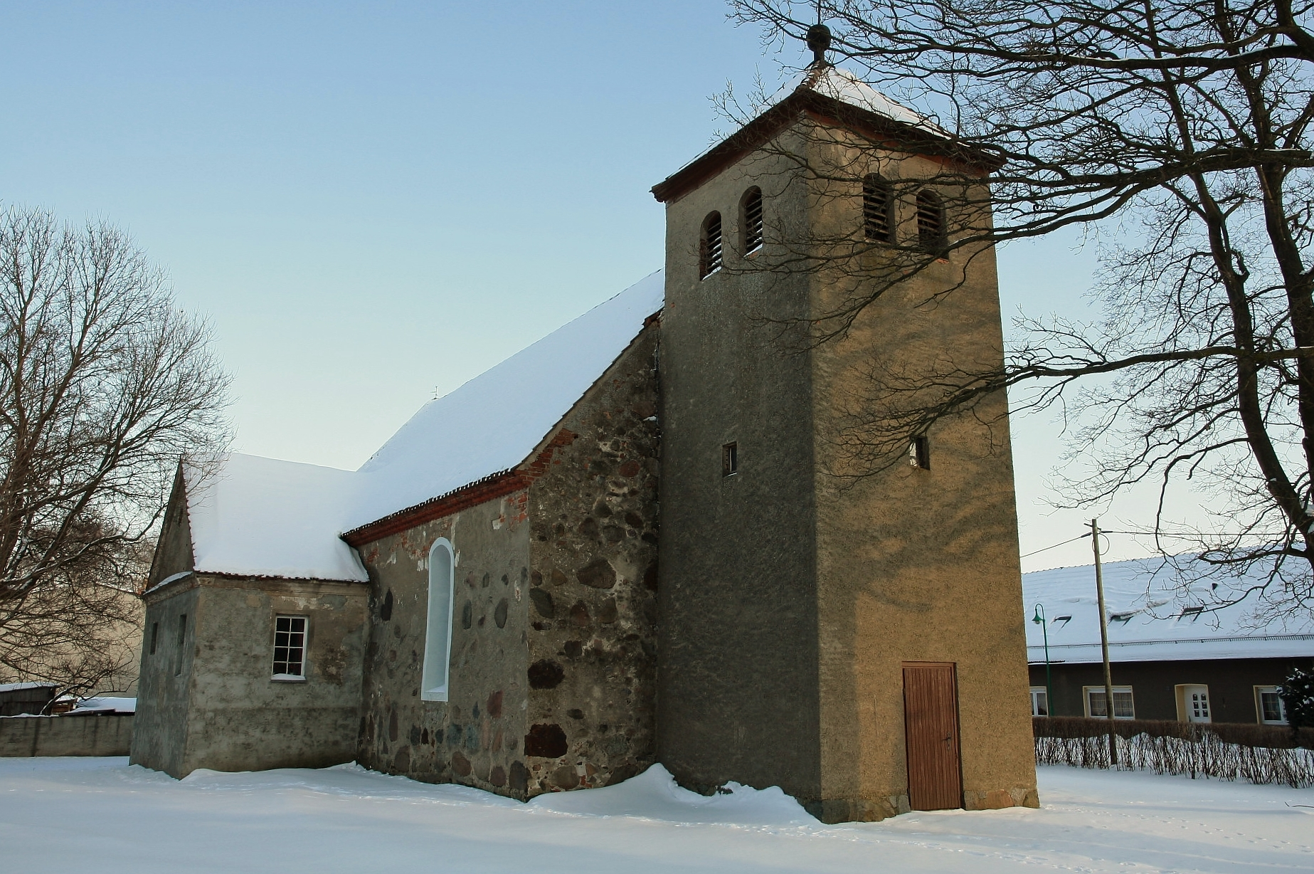 Church of Werchau